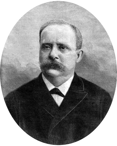 Portrait of French chemist(inventor) Eugène Turpin (1848–1927). Original creator of this photograph is anonymous. Thus, see Berne Convention (article 7), we can consider that the term of protection starts at 1894 (publication) and ends at 1964 (1894 + 70).